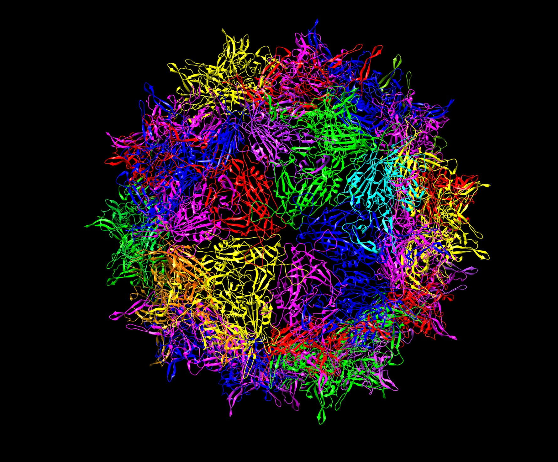 AAV2, shown as a ribbon diagram, with the back half hidden for clarity. From PDB structure 1LP3